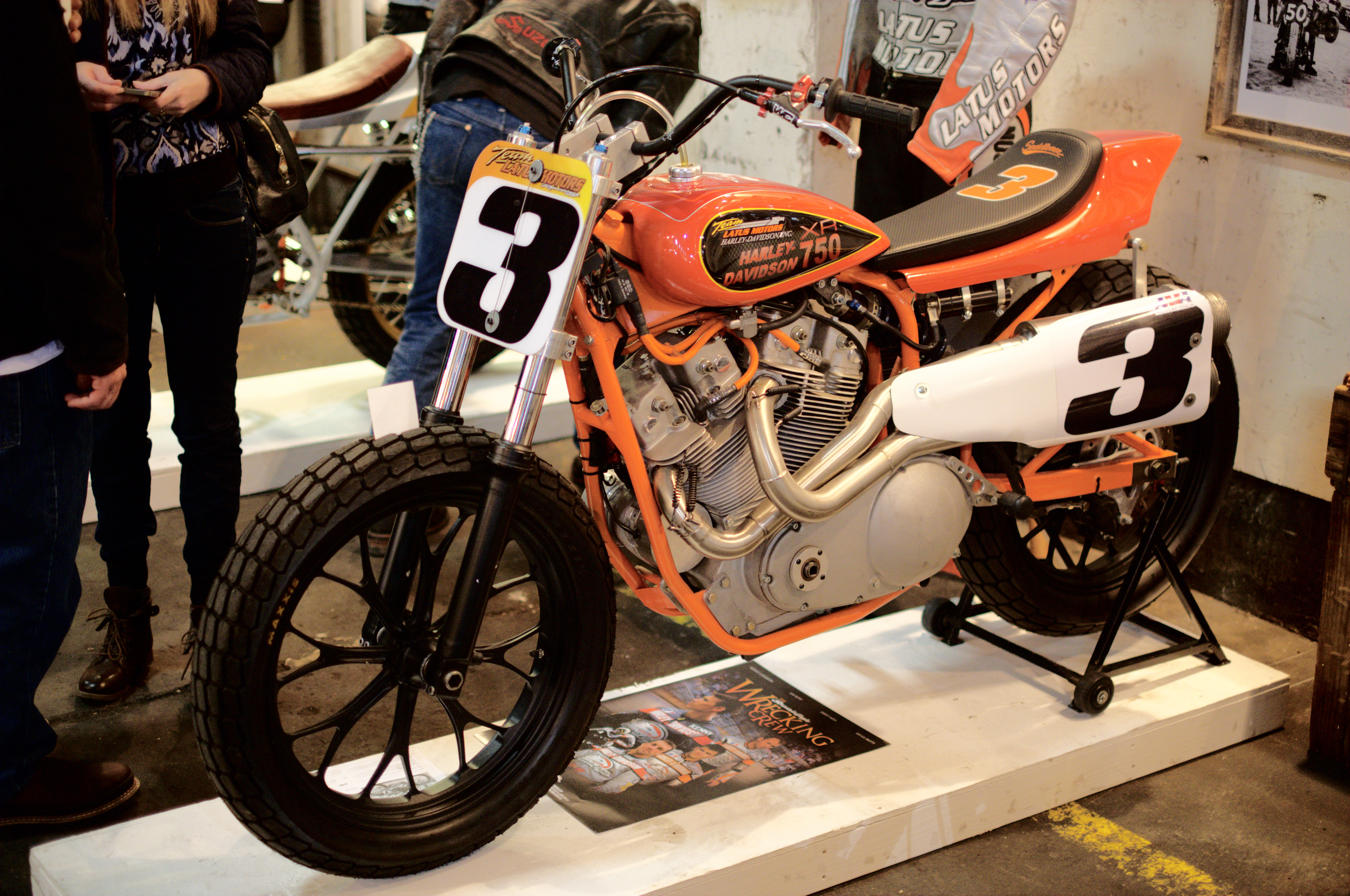 Team Latus Harley-Davidson XR-750 at The One Motorcycle Show, Portland, Oregon.